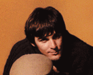 Dennis Wilson with the Beach Boys in 1966